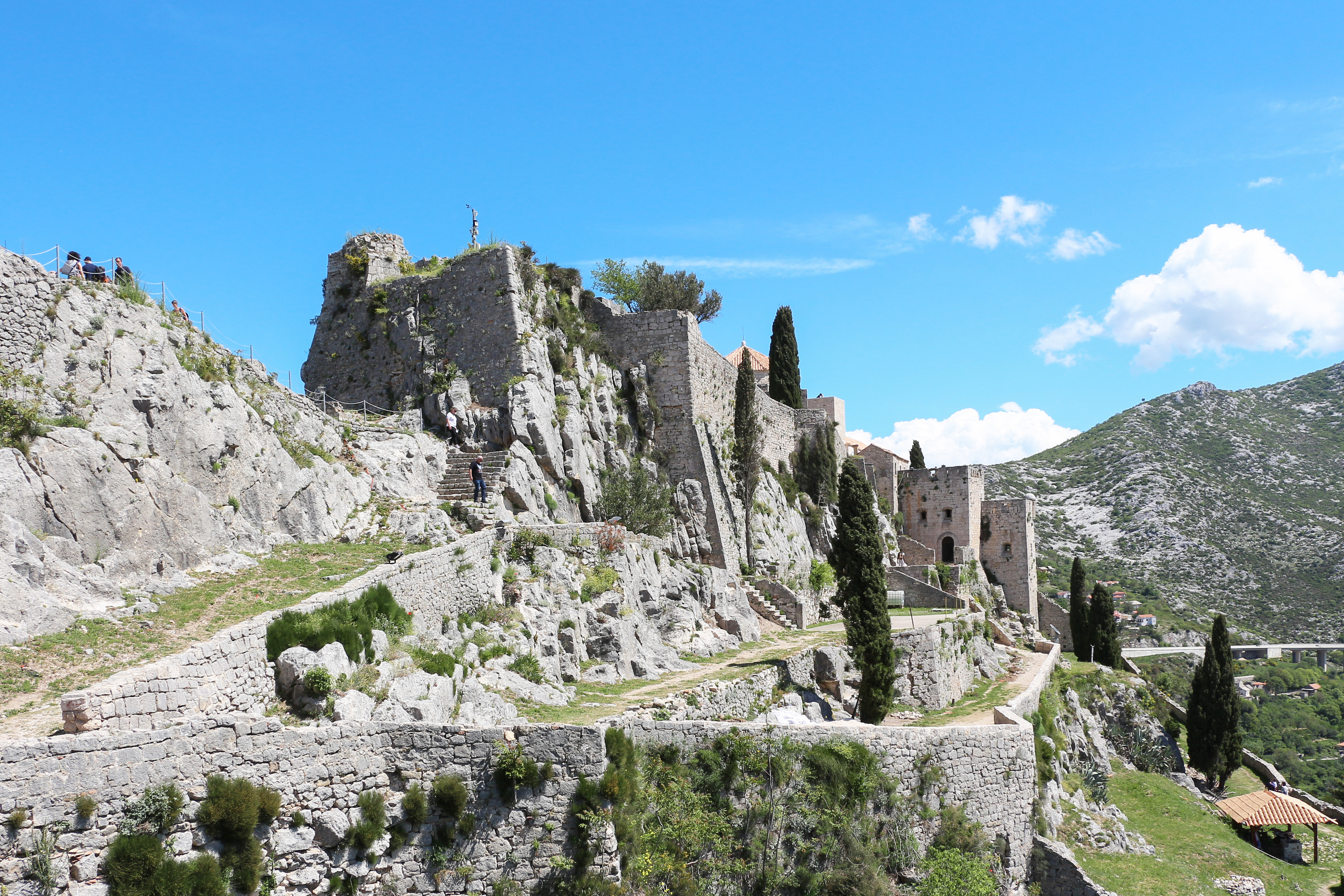 Klis Fortress, Croatia